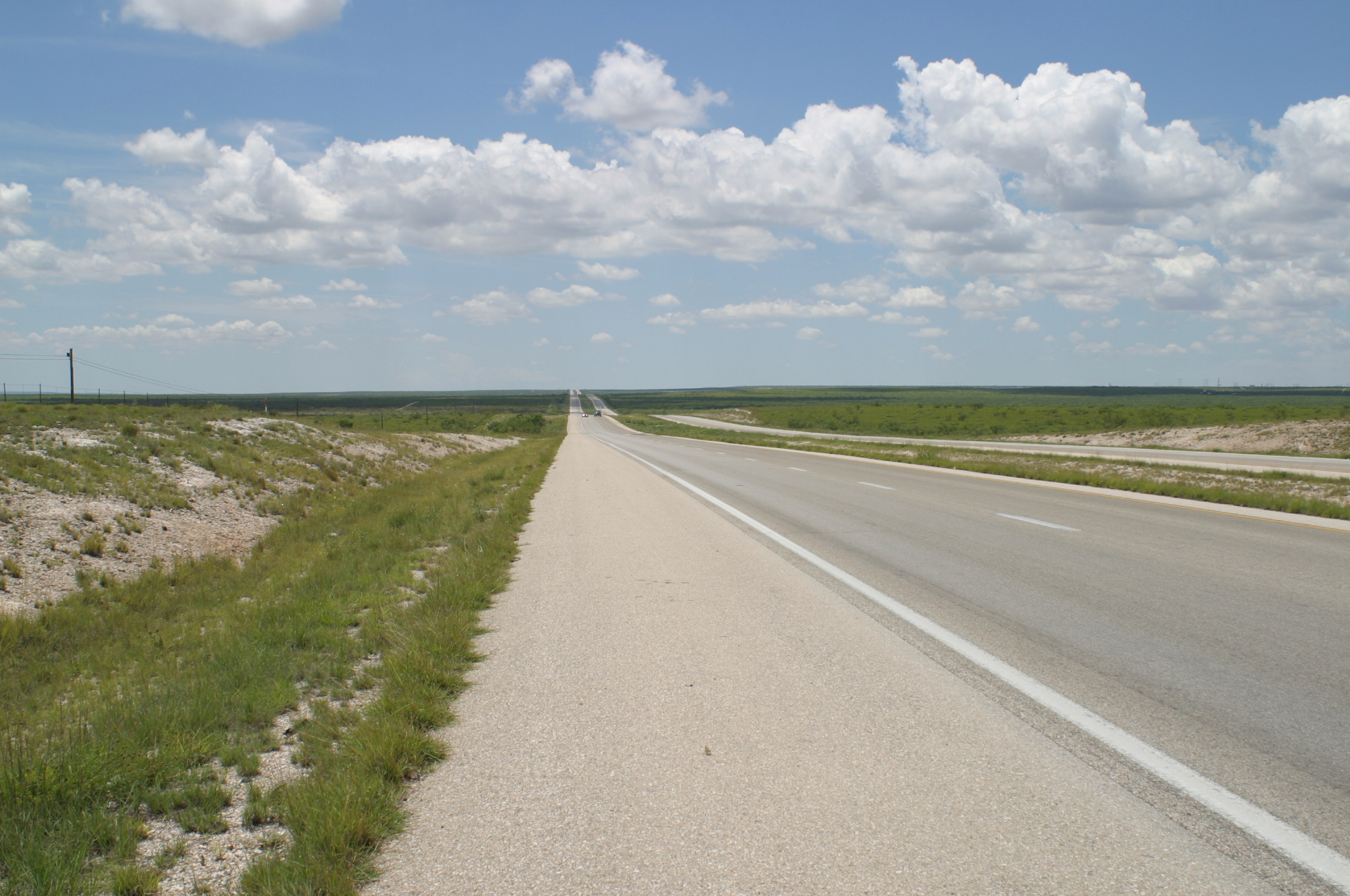 A portion of the Great Plains west of Hobbs, U.S. 62/180, Lea County, Eastern New Mexico.